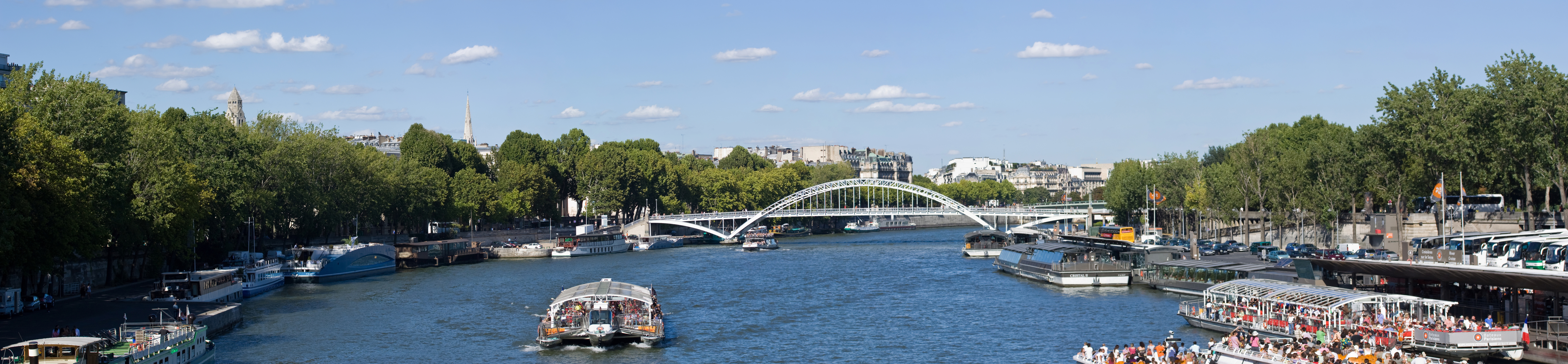 A view of the Seine, towards the Passerelle Debilly (Debilly Footbridge), from Pont d'Iéna (Bridge of Iéna), with the Eiffel Tower on the right, out of shot.